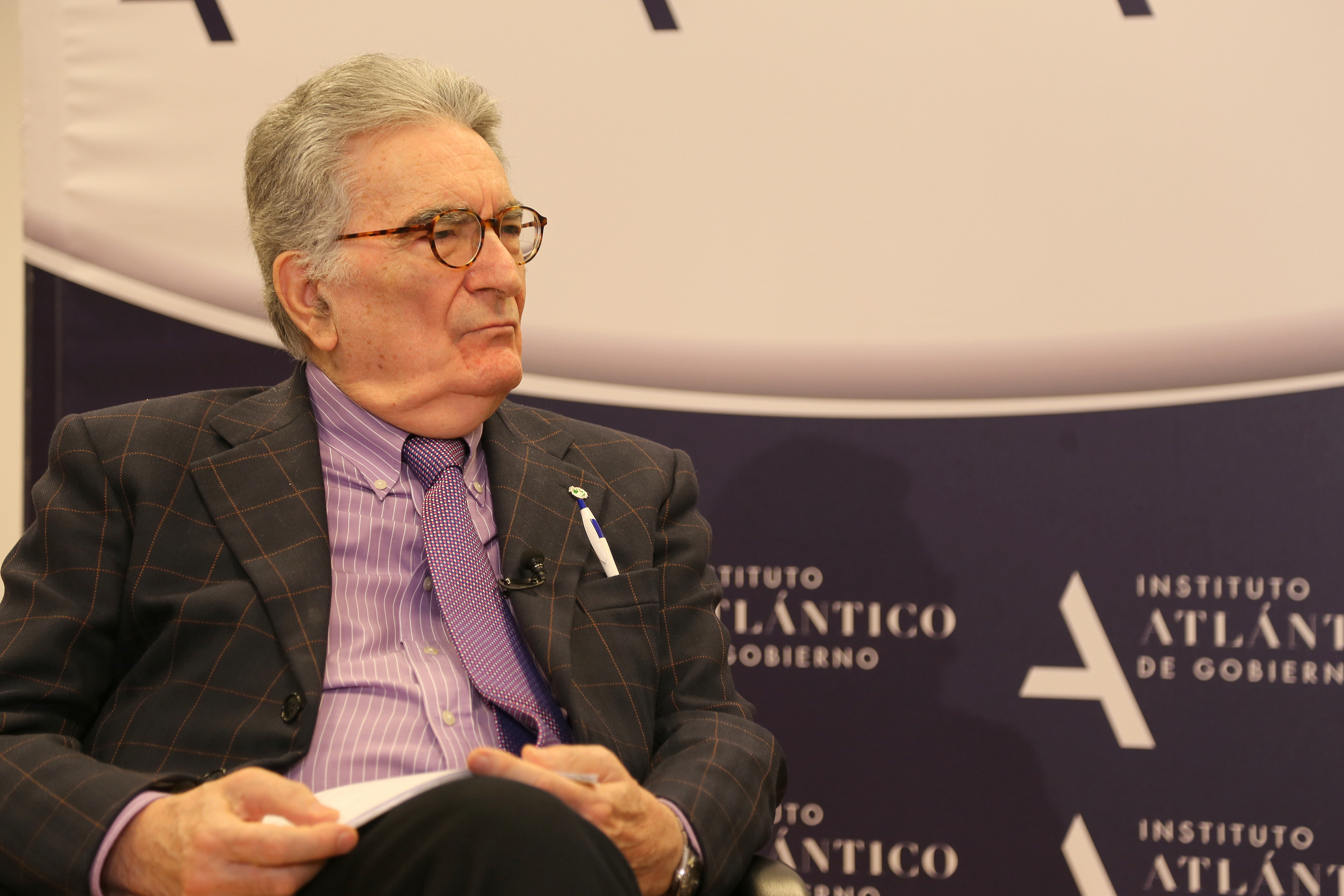 Gianfranco Pasquino, Madrid January 2016